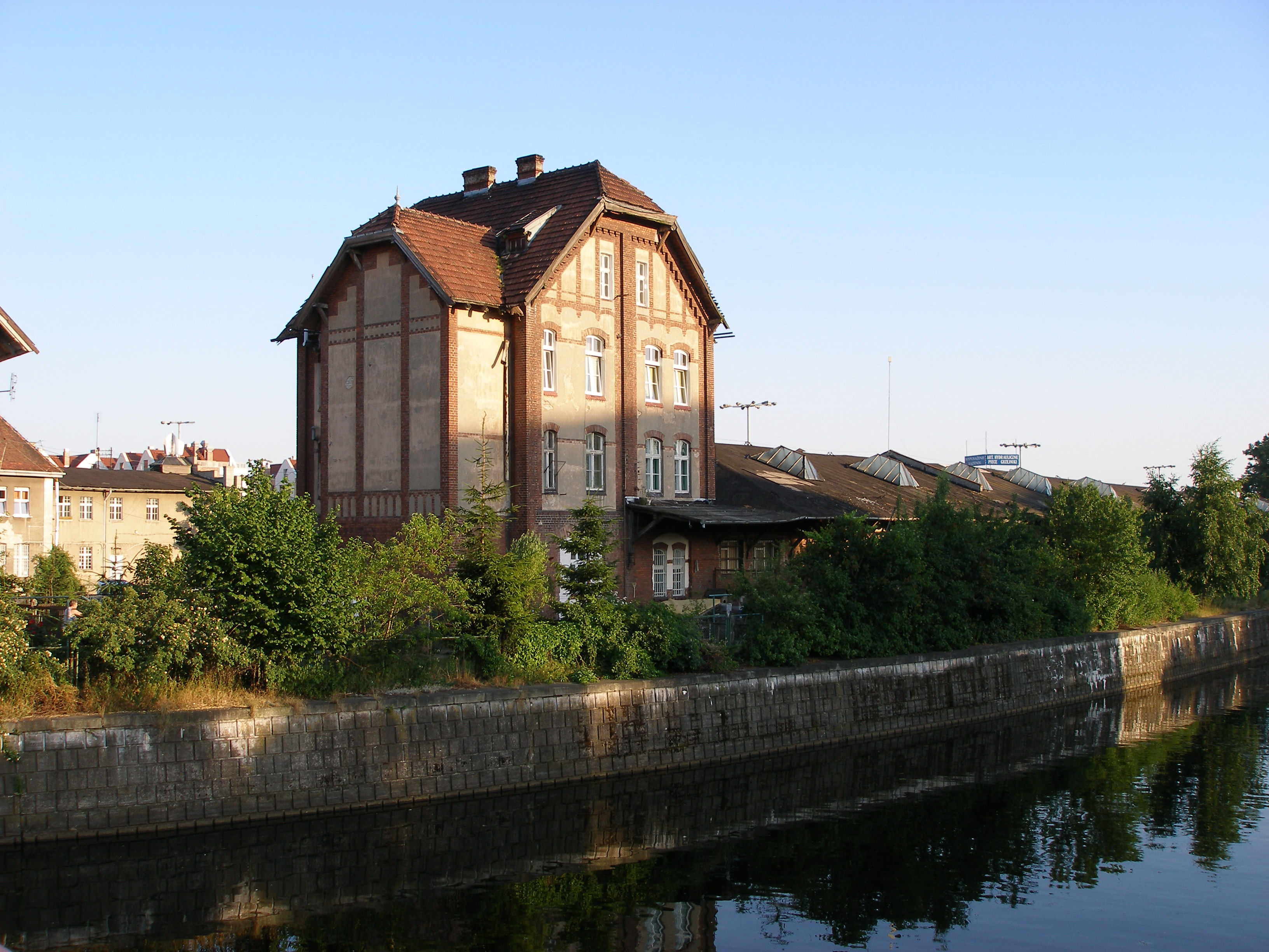 Former main train station in Gdańsk, from 19th c. Picture taken in Gdańsk after Wikimania 2010 conference.